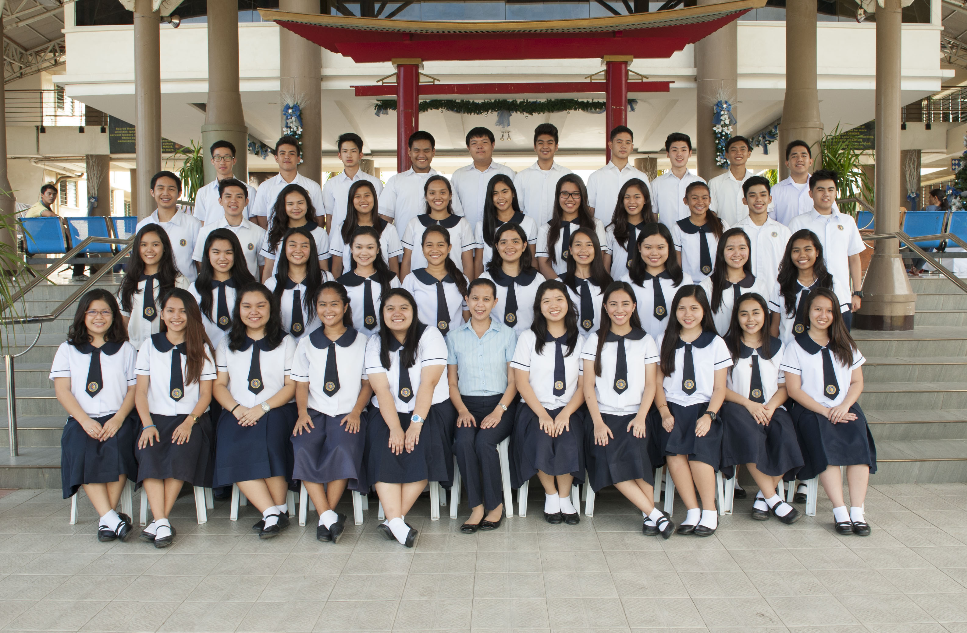 Sacred Heart School - Ateneo de Cebu's Honors class of the Grade 10 Level of School Year 2015 - 2016, Grade 10 - St. Ignatius of Loyola. NOTABLE STUDENTS: Stevenson Fick Jason Evangelista Neil Limbaga